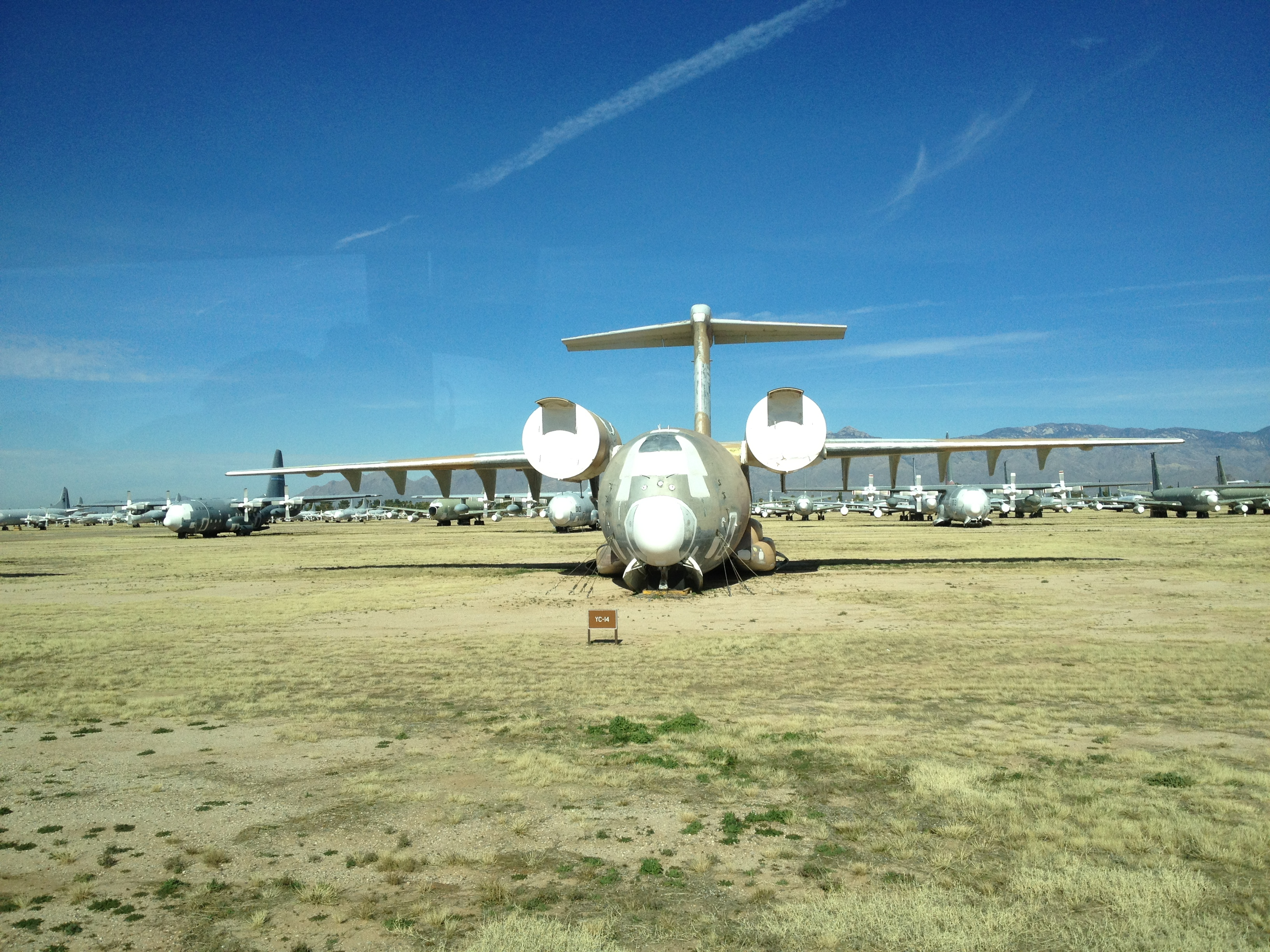 One of the two Boeing YC 14s ever built. Now at Davis Monthan Air Force Base.